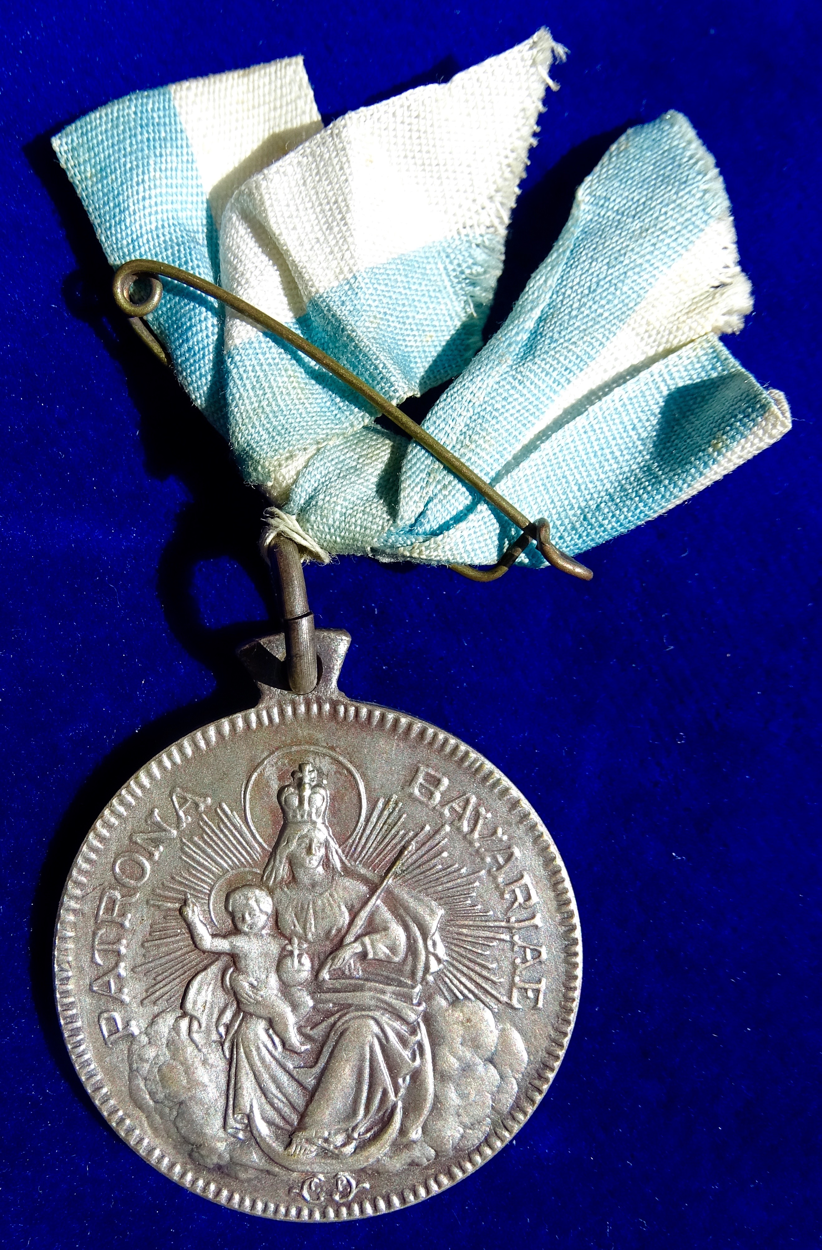 Silvered base metal d. = 34 mm. A rare item! After WW1 Vigilante Groups were formed in Bavaria in 1919. In June 1921 they had to be dissolved again because of Allied pressure, as being in breach of the Treaty of Versailles. Radiant Madonna with Child, around: "PATRONA BAVARIAE"/ 6 lines: "1. LANDESSCHIESSEN D. EINWOHNERWEHREN BAYERN MÜNCHEN 25. - 30.9.20." Medallist: C. P. Condition: Medallion: Almost UNCIRCULATED. Original ribbon: VERY FINE.